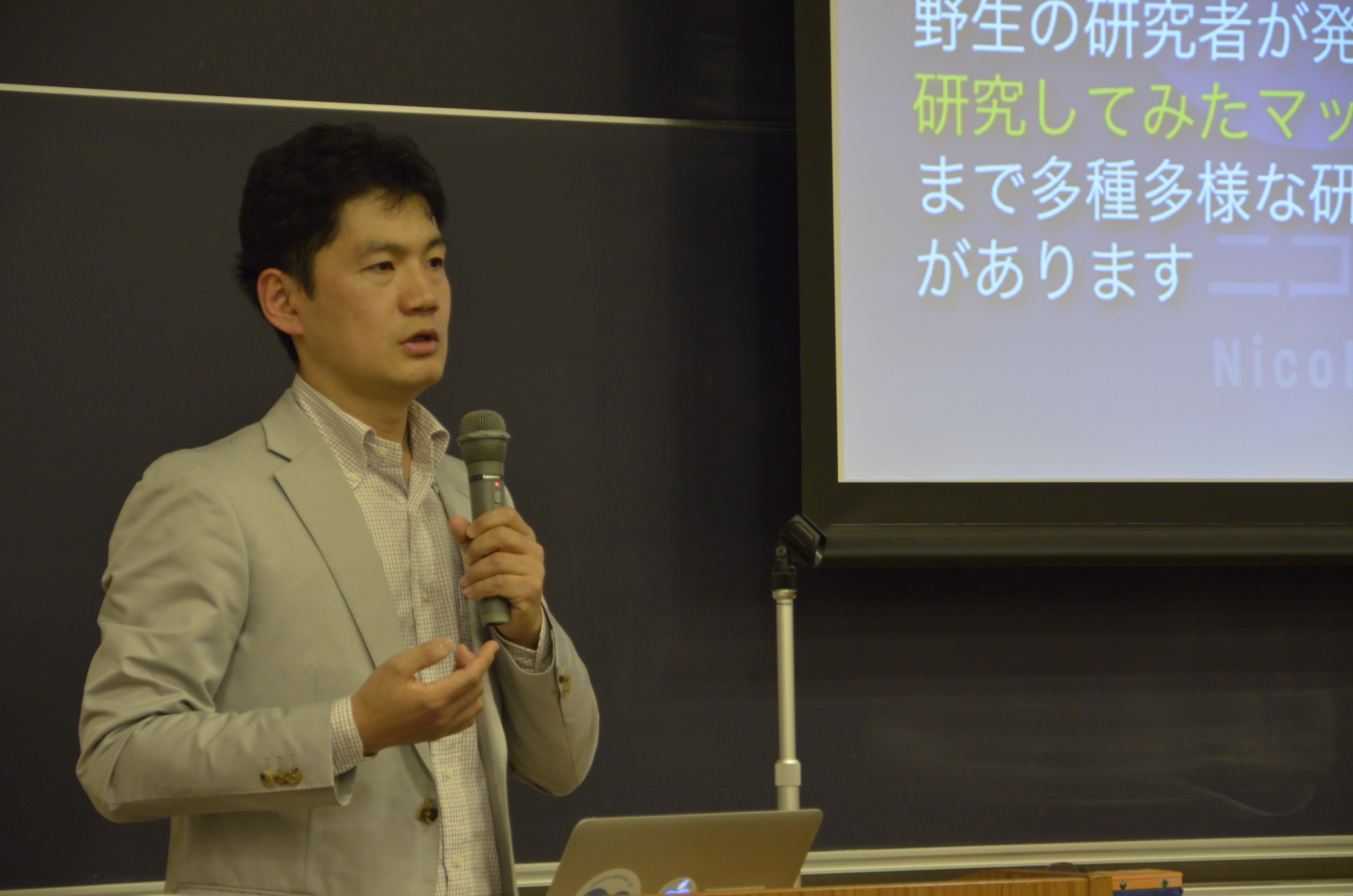 Koichiro Eto (江渡浩一郎) giving a talk for WCJ2013.